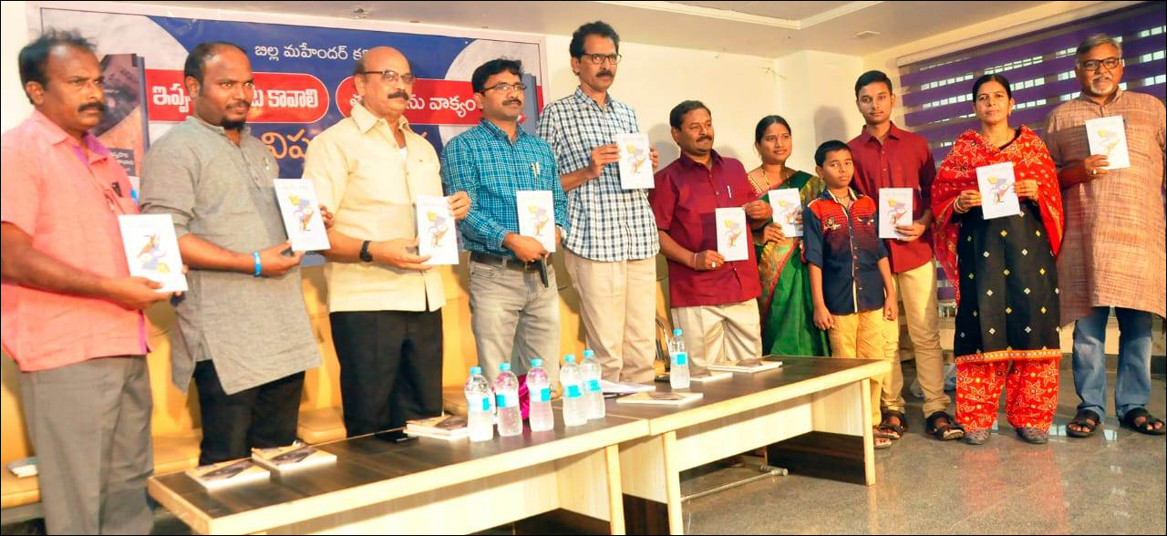 book releasing-1